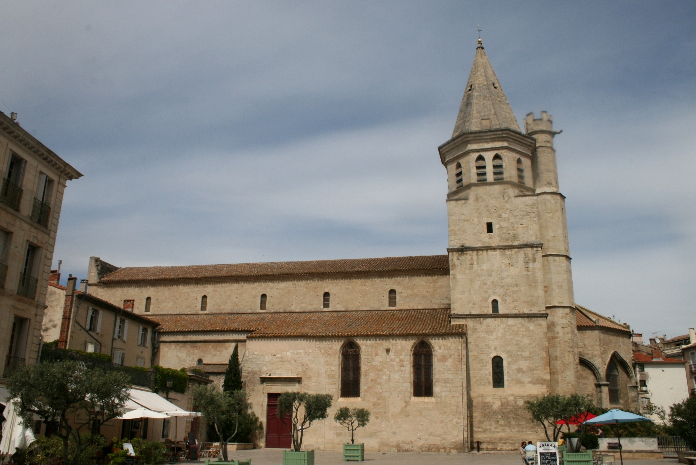 Church in Beziers. France